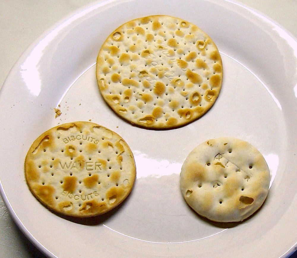 Three varieties of Water Biscuit or Cracker (Approximate Diameters in Cm) - Left: A Standard Supermarket own brand Water Biscuit (6.7cm), Right: Excelsior Water Cracker from Jamaica (5.5cm), Top: Carr's Table Water Biscuit (8.5cm)